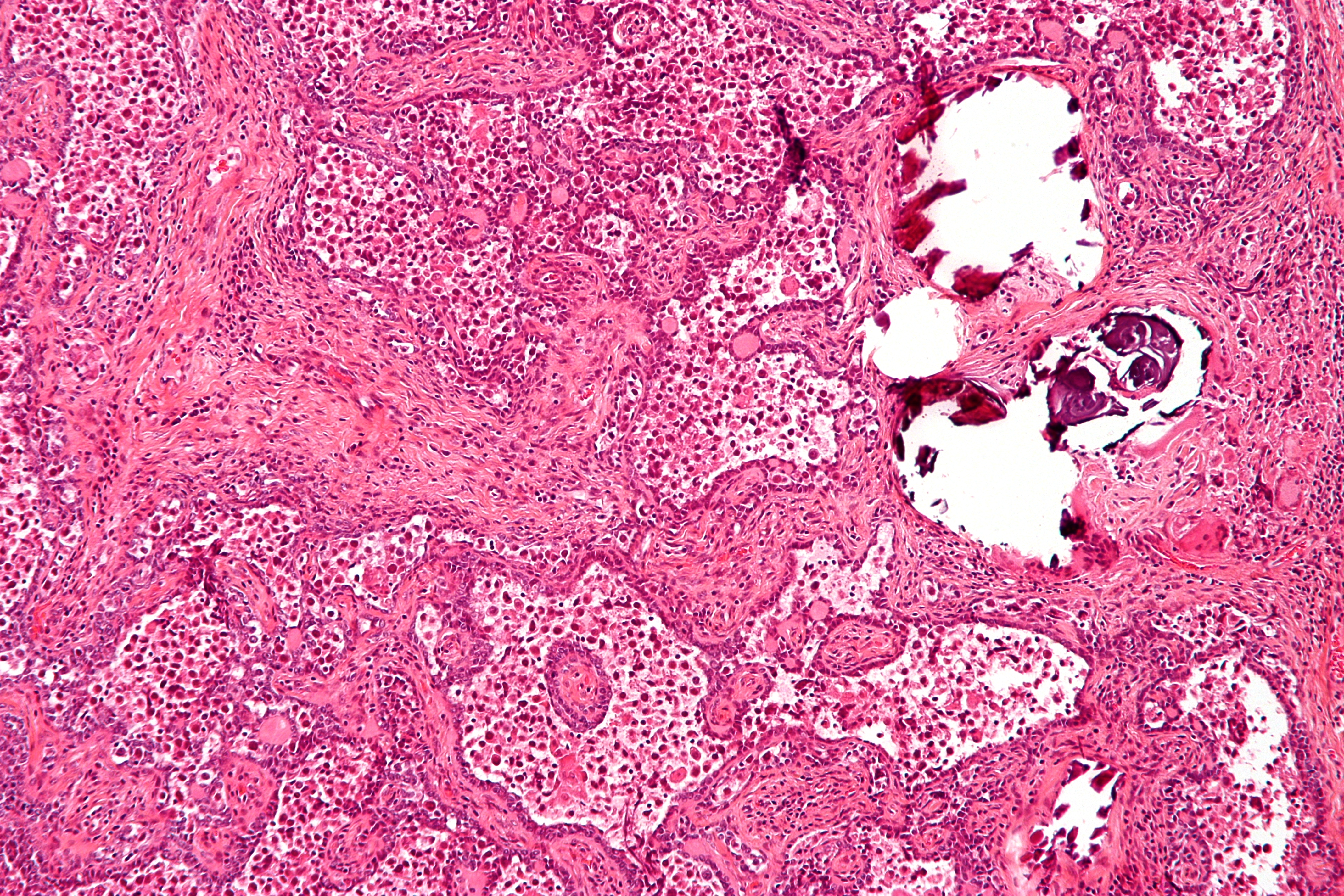 Intermediate magnification micrograph of a gonadoblastoma, a rare tumour of the gonads that is composed of a sex cord-stromal element (Sertoli cells or granulosa cells) and primitive germ cells. H&E stain. Related images Very low mag. Low mag. Intermed mag. High mag. High mag. Very high mag.